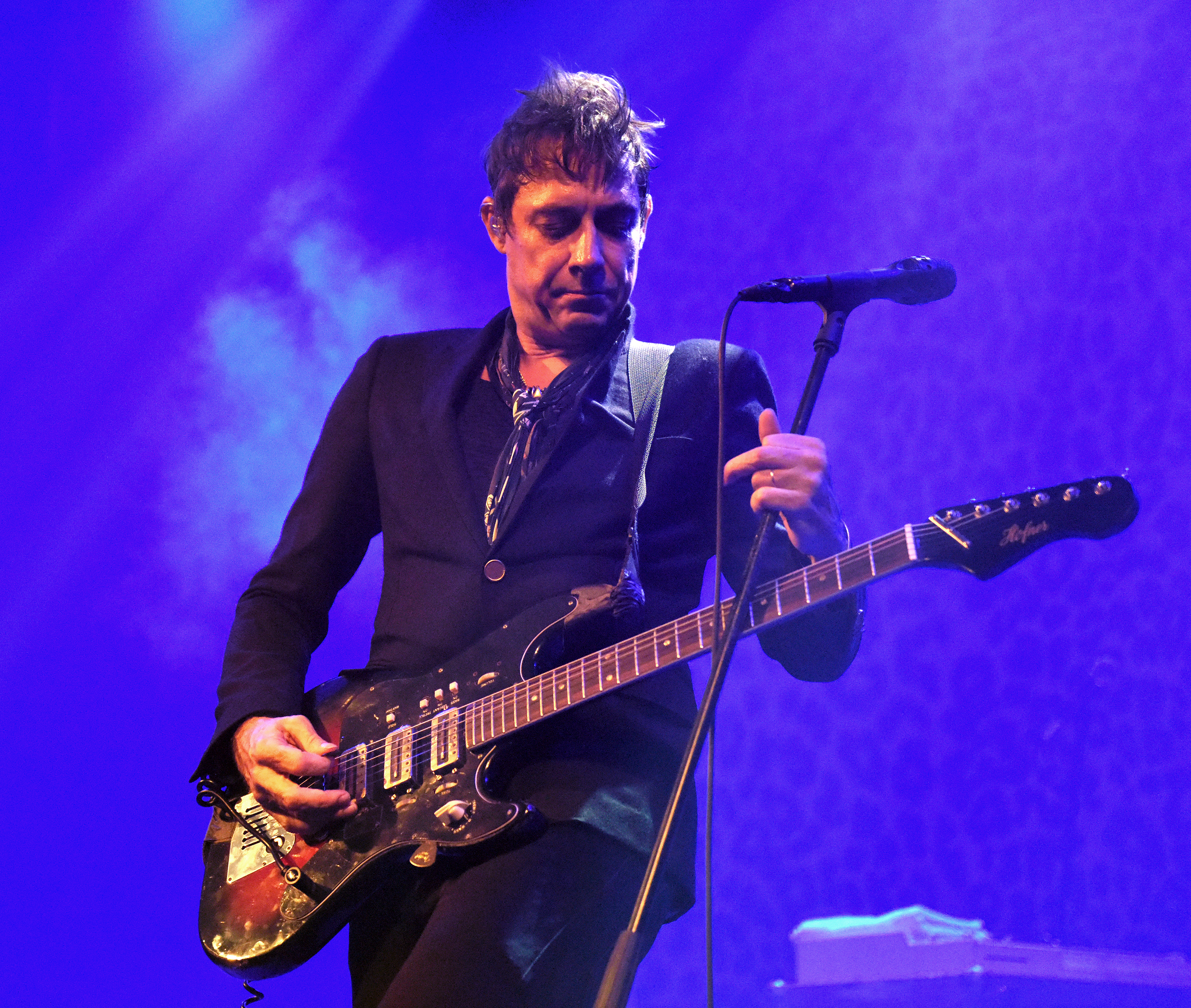 CMJ Music Marathon October 23, 2014 Bowery Ballroom New York City